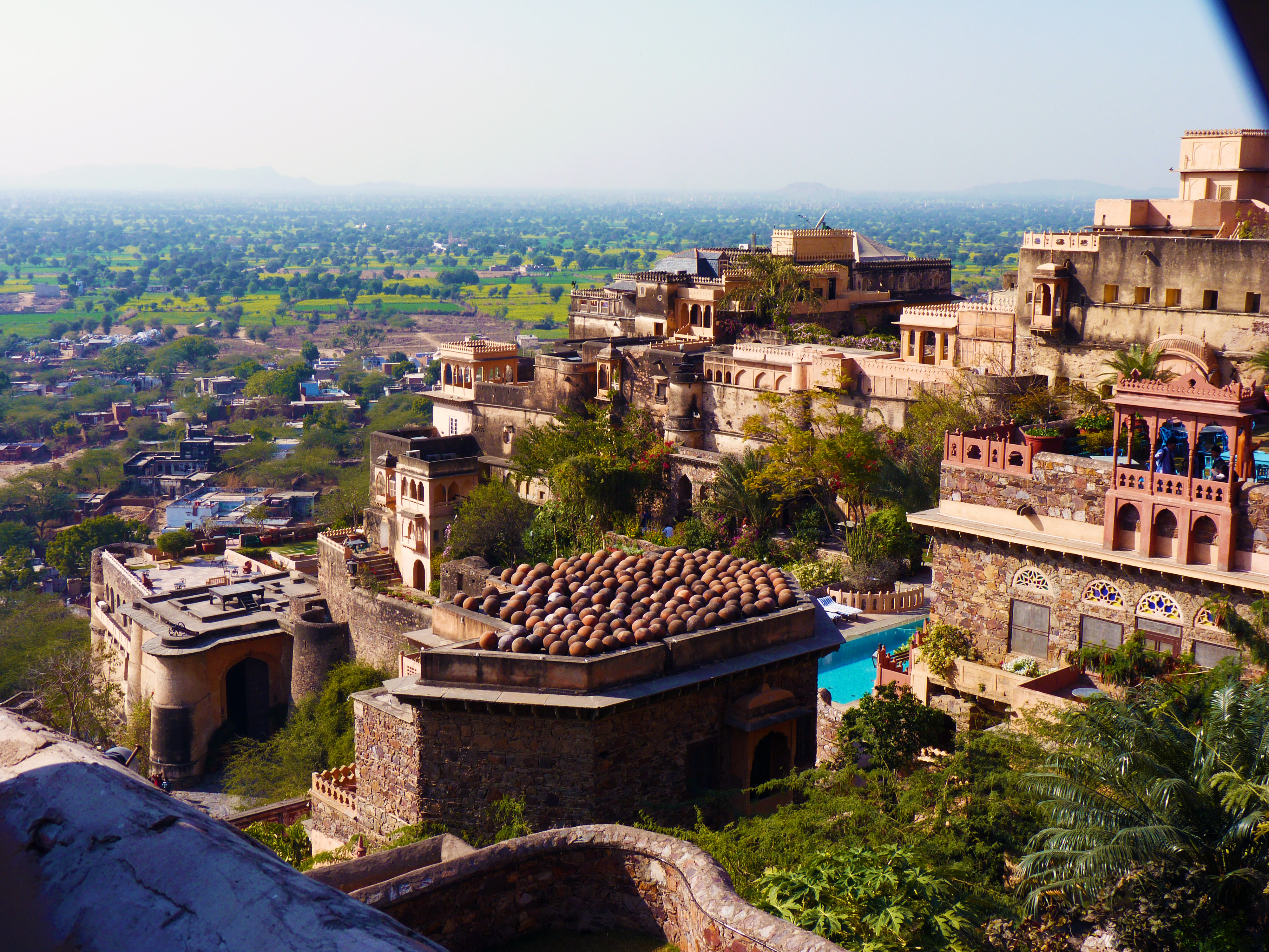 Built since 1464 AD, Neemrana Fort-Palace is today among India's oldest heritage resorts, started in 1986 . It is located on a high hillock and it commands magnificent views of the surrounding beauty and got its name from a valiant local chieftain named Nimola Meo, situated at 122 km on the Delhi-Jaipur highway - only 100 km from Delhi's international airport. The Chauhan capital was shifted from Mandhan (near Alwar) to Neemrana when the was established by Raja Dup Raj in 1467.[2] Nowadays, the Neemrana fort is a leading heritage resort and is an ideal venue for weddings and conferences. When you step inside this hotel, you will virtually get transported to an entirely different world. The ambiance is simply captivating and features period furniture, antique works of art and frescoed paintings The nearby town of Kesroli is located at a distance of 155 km from Delhi and is an ideal base for exploring the grandeur and natural beauty of Rajasthan. This place is only some distance from Neemrana and excursions from Neemrana would be ideal for exploring this magnificent town that has also its mention in the mythology. According to the historians this place can be traced to Matsya Janapada of the Mahabharata times. Here you will come across some of the oldest remains of a Buddhist Vihara where the Pandavas are believed to have spent the last year of their exile. One can catch a glimpse of the reclining statue of Hanuman; memorial of the ruler saint Bhartrihari and Talavriksha with very old water reservoirs.